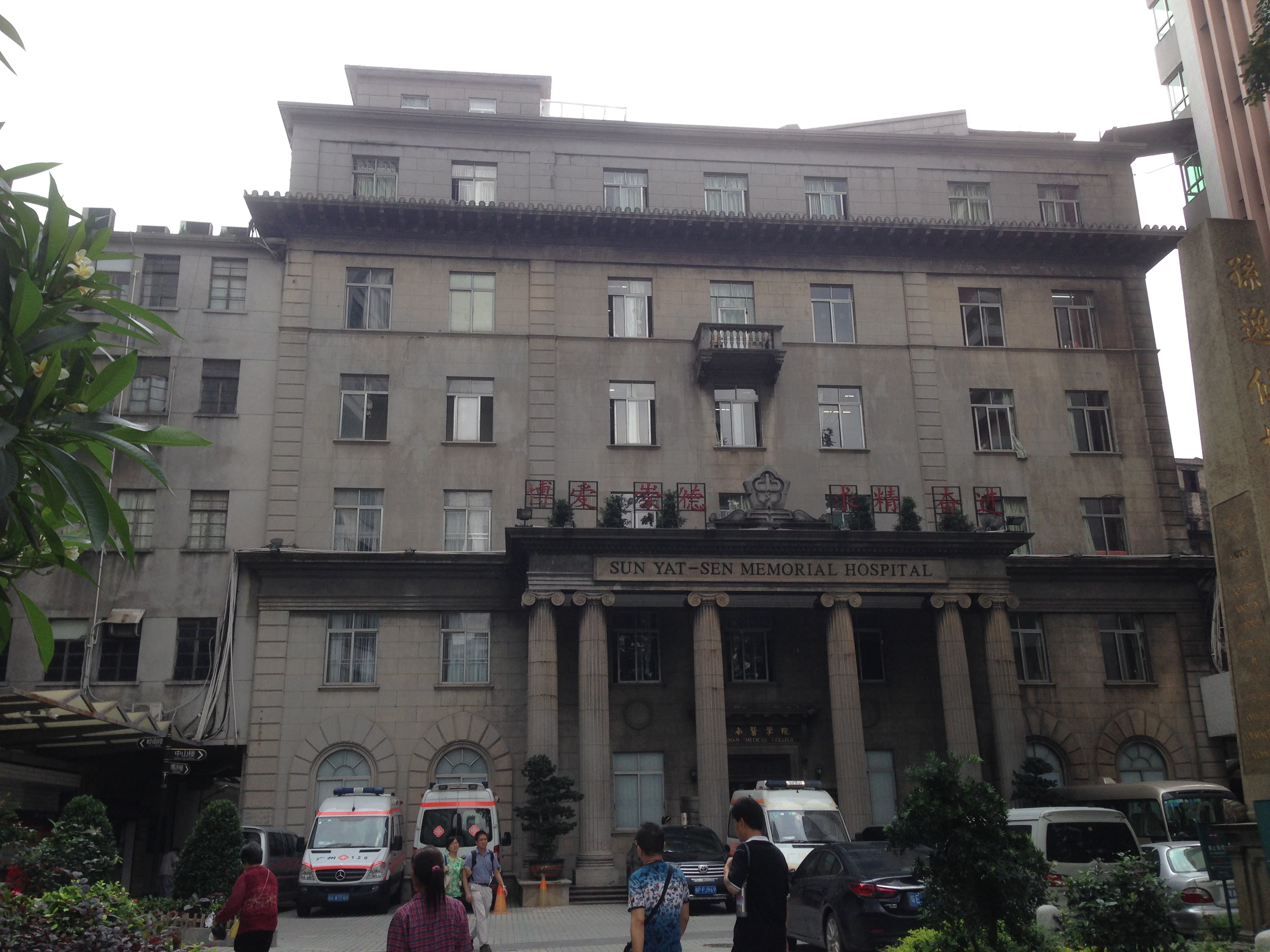 Sun Yat-sen Memorial Hospital, Guangzhou, People's Republic of China